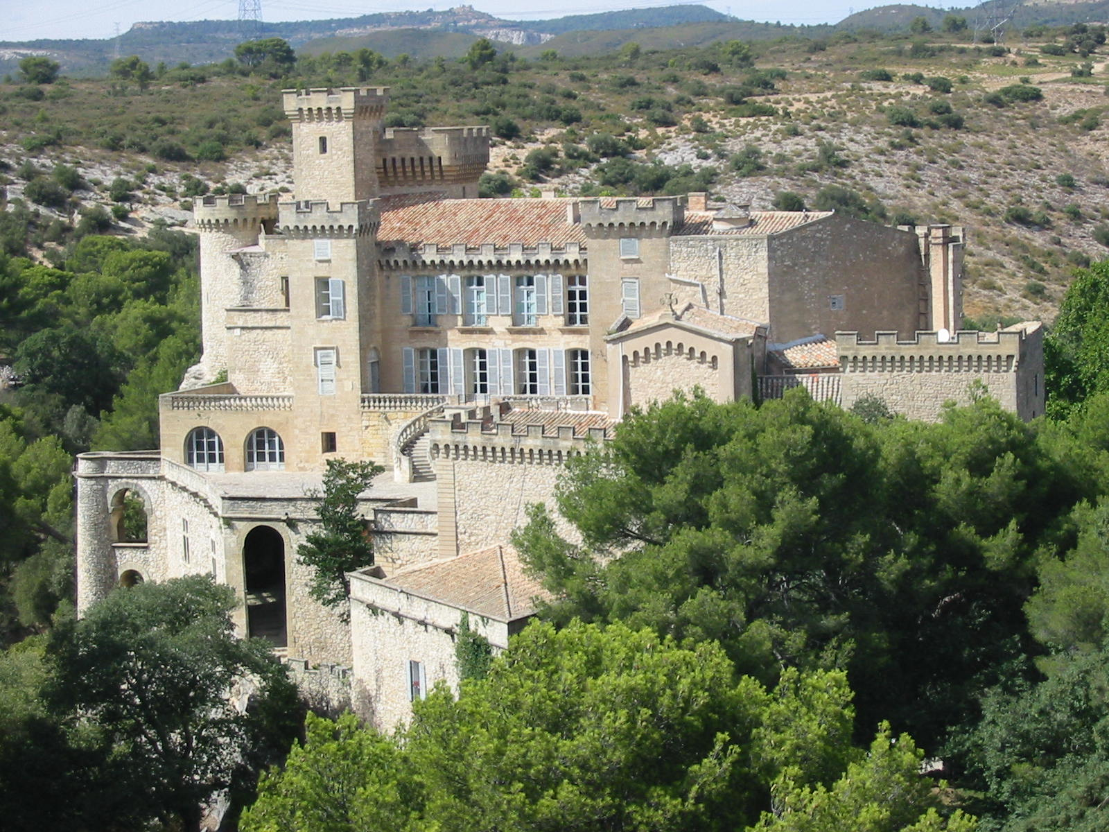 Castle of La Barben